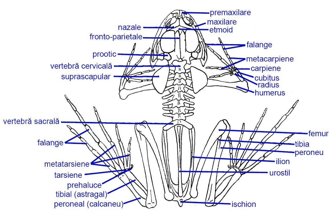 Frog skeleton